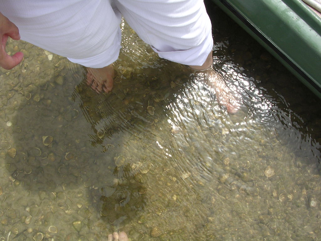 Example of biodiversity of a mangrove. (Molluscs and crustaceans). Saloum Delta National Park, Senegal.